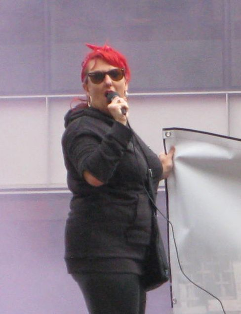 Lisa McKenzie at the anti austerity demo, London, 20 June 2015.